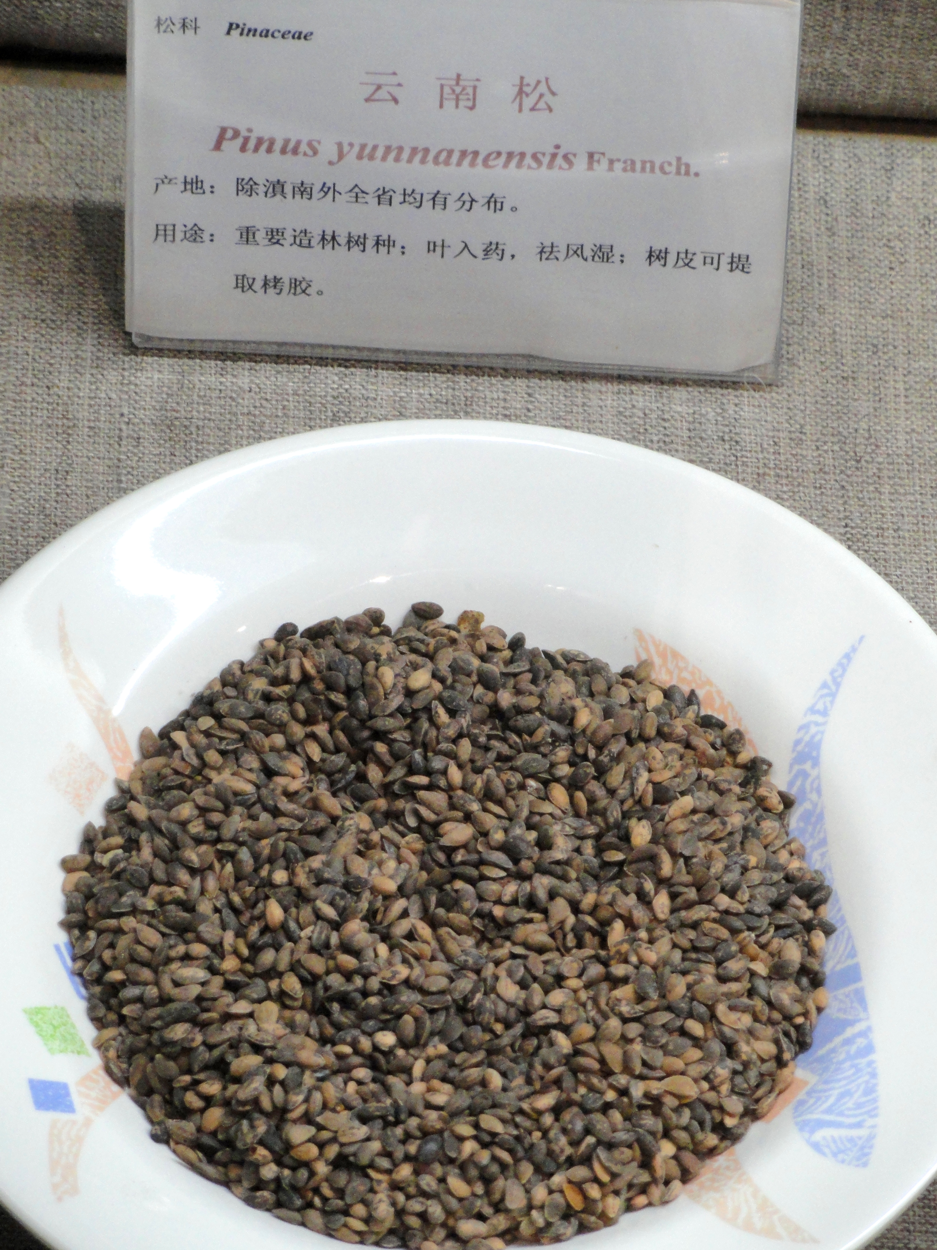 Seeds exhibited in the Kunming Botanical Garden, Kunming, Yunnan, China.